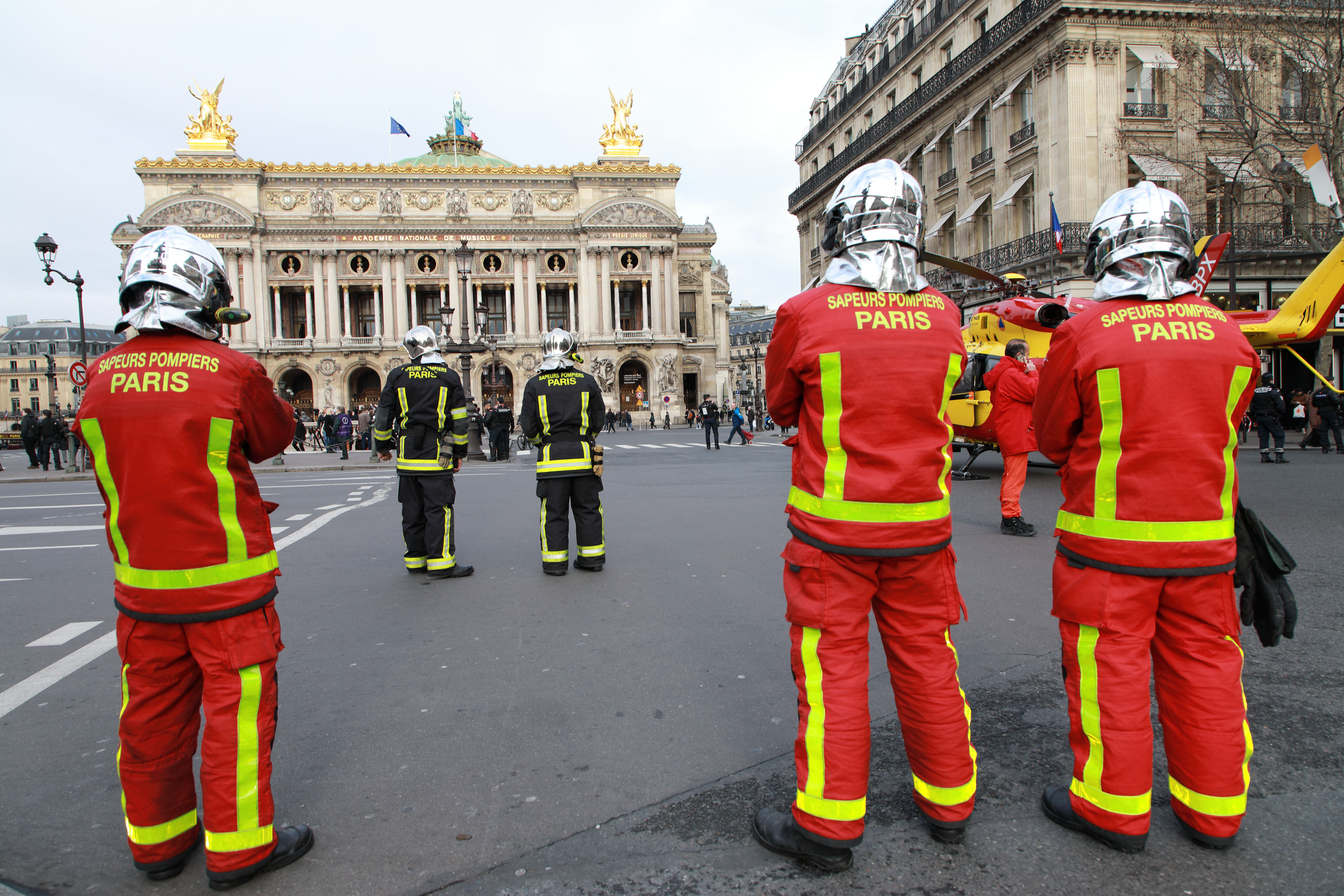 Helicopters are usually not allowed to land in downtown Paris. The Airbus H145 from Sécurité civile was there for medical evacuation after a gas explosion accident on January 12, 2019.